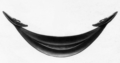 An old rei miro, with human heads on each end. The inner side features a slit which was once filled with chalk.